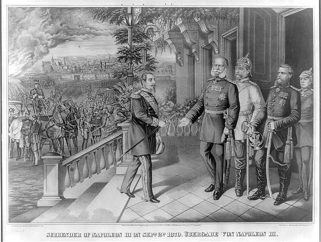 Napoleon III handing his sword to Wilhelm I, King of Prussia, after the battle of Sedan, on 2nd September 1870.